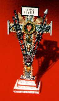 Photo of Peruvian Retablo